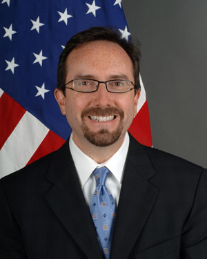 John R. Bass, U.S. diplomat. As of 2009, U.S. ambassador to Georgia.